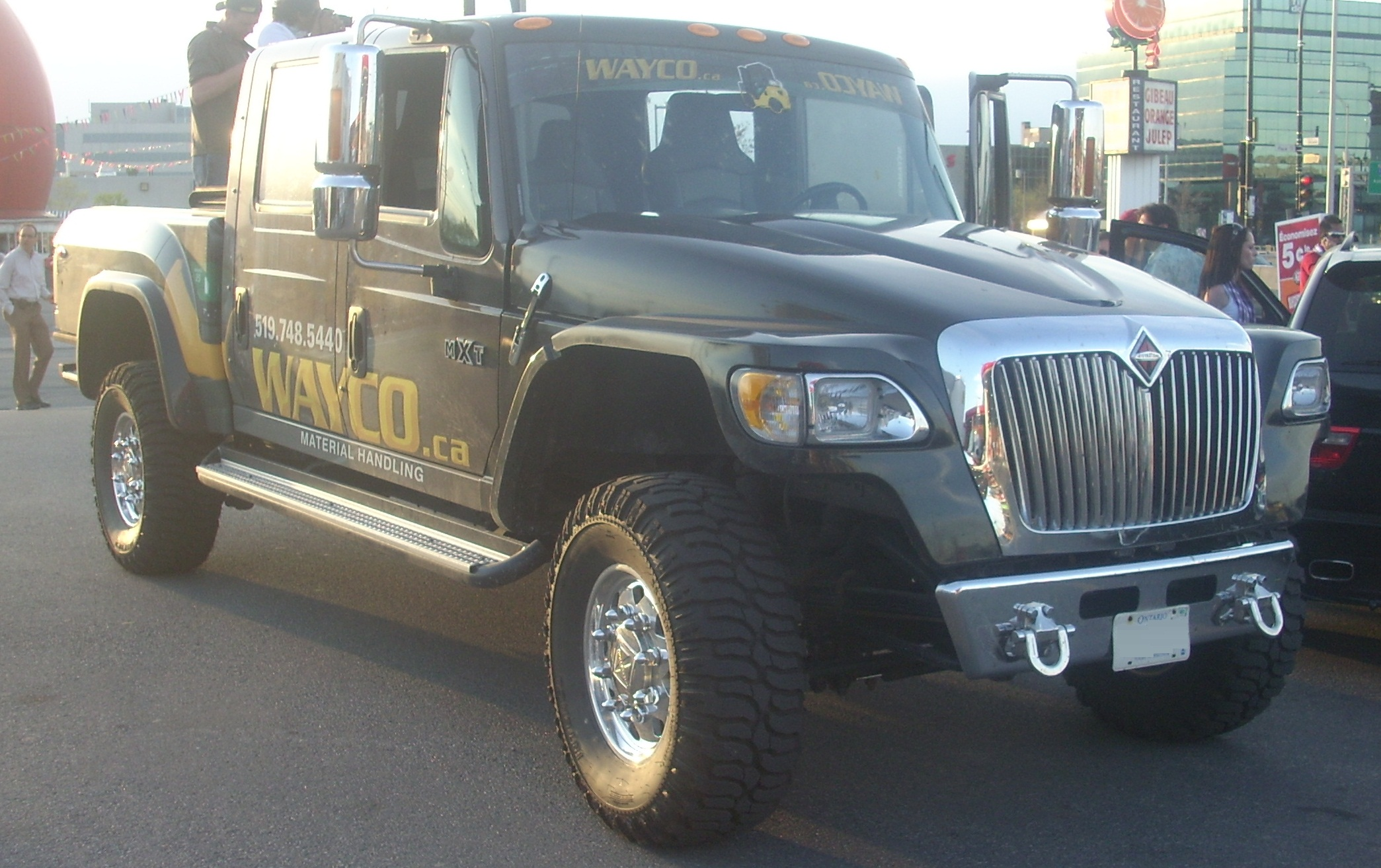 International MXT photographed in Montreal, Quebec, Canada.